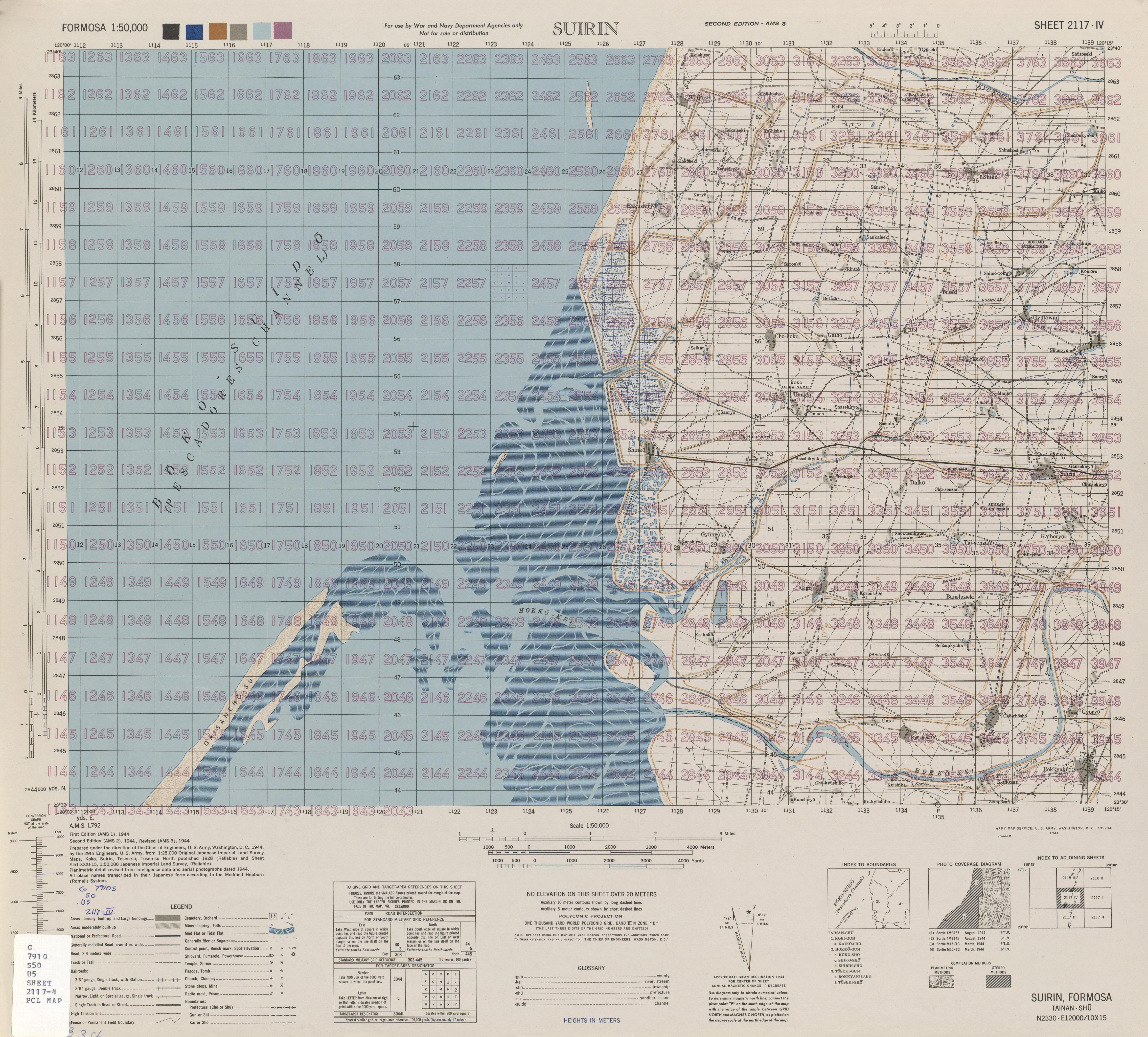 Map from Formosa (Taiwan) 1:50,000 AMS Series L792